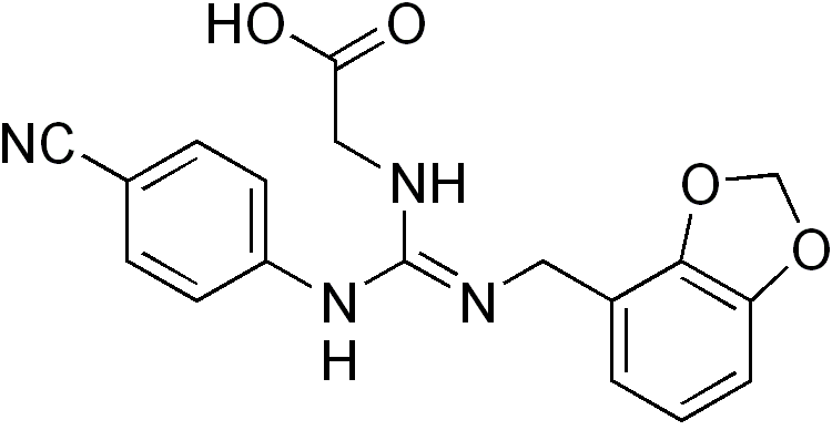 Chemical structure of lugduname created with ChemDraw